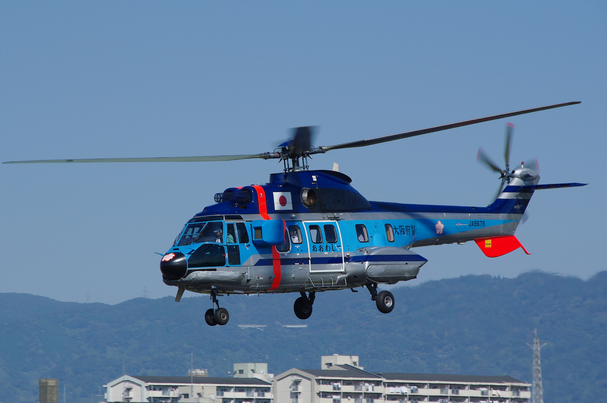 Photograph of Osaka Prefectural Police's Aérospatiale AS332L1 (JA9679, Owashi), taking off from Yao Airport, Yao, Osaka Prefecture, Japan.